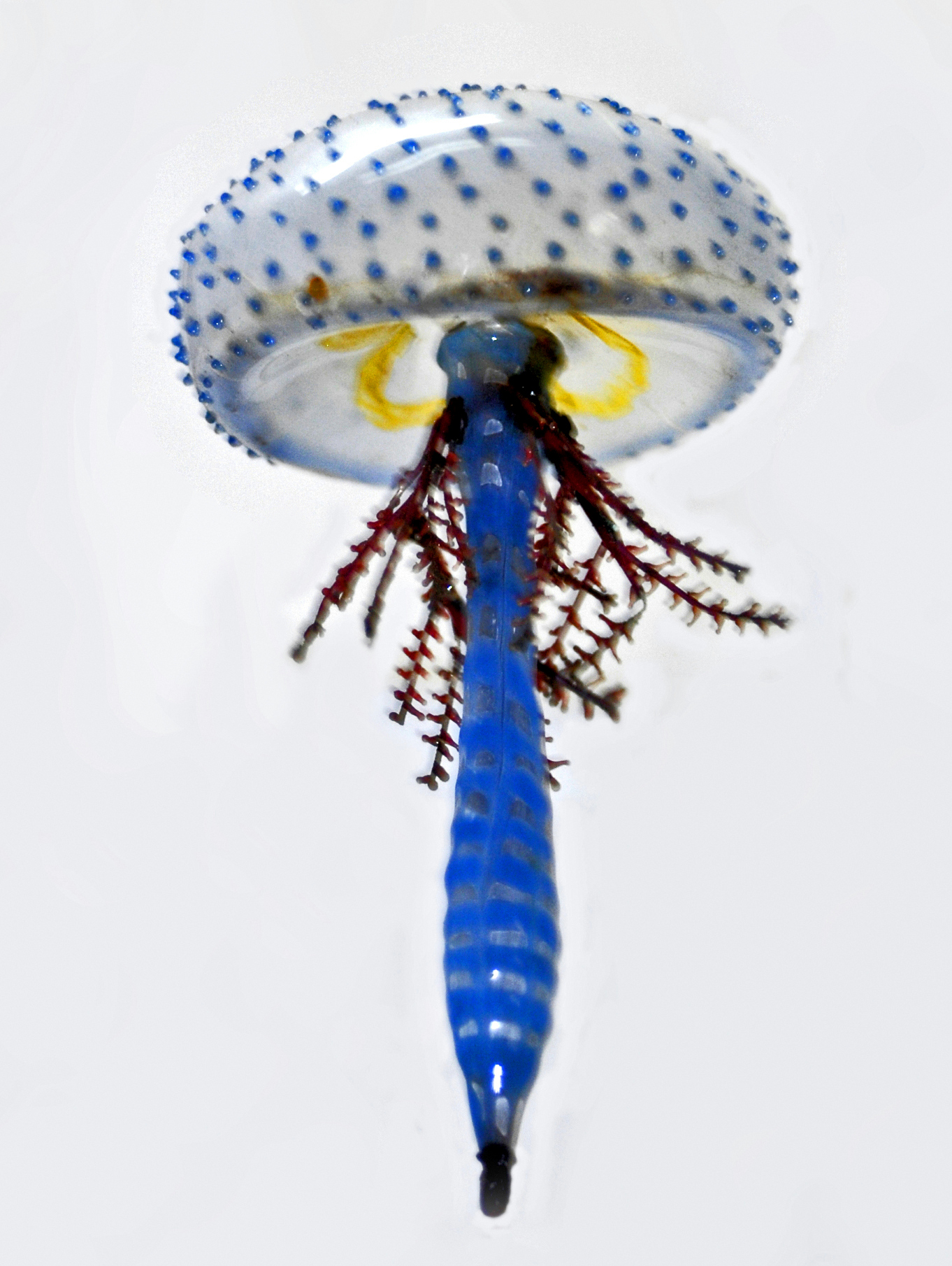 Glass model of Lymnorea triedra by Leopold Blaschka (1822 - 1895), on display at the Museo di Storia Naturale e del Territorio, Calci (Province Pisa), Italy